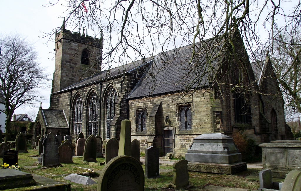 St James' parish church, Brindle, Lancashire, seen from the east, showing the chancel completed in 1870